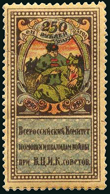 Revenue stamp of voluntary gathering of the All-Russia committee of the help to invalids of war, 1923